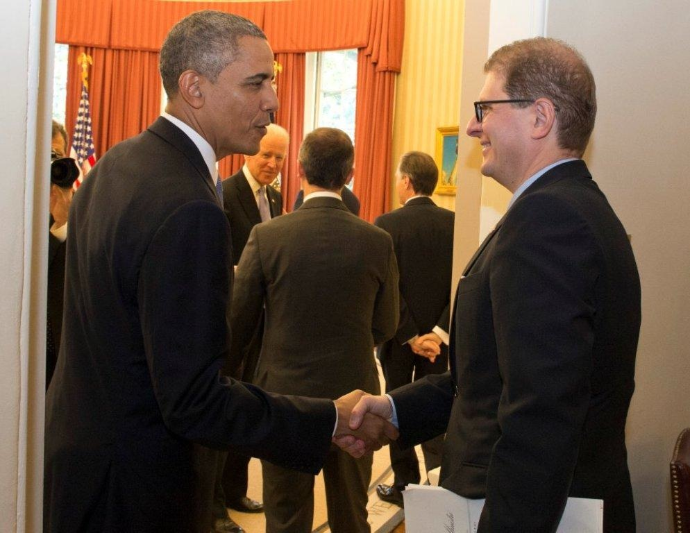 Fabrizio Pagani shaking hands with President Obama during the visit by PM Enrico Letta to Washington